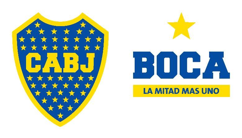 Logo of "Boca La Mitad Más Uno" launched by Club Atlético Boca Juniors as part of its global identity.